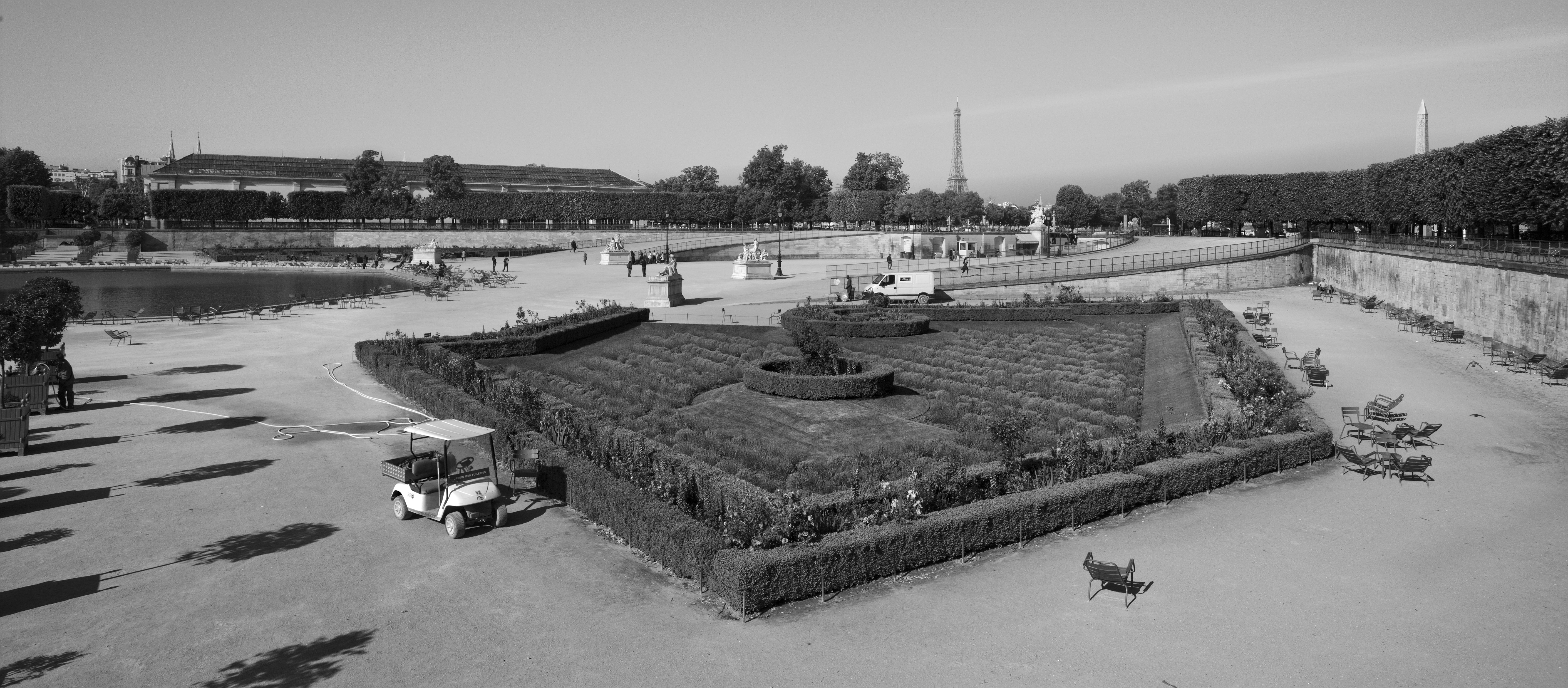 Southwesterly view from within the Jardin des Tuileries, above the Grand Bassin Octagonal, showing the Musée de l'Orangerie, Eiffel Tower and the top of the Obélisque at neighbouring Place de la Concorde.